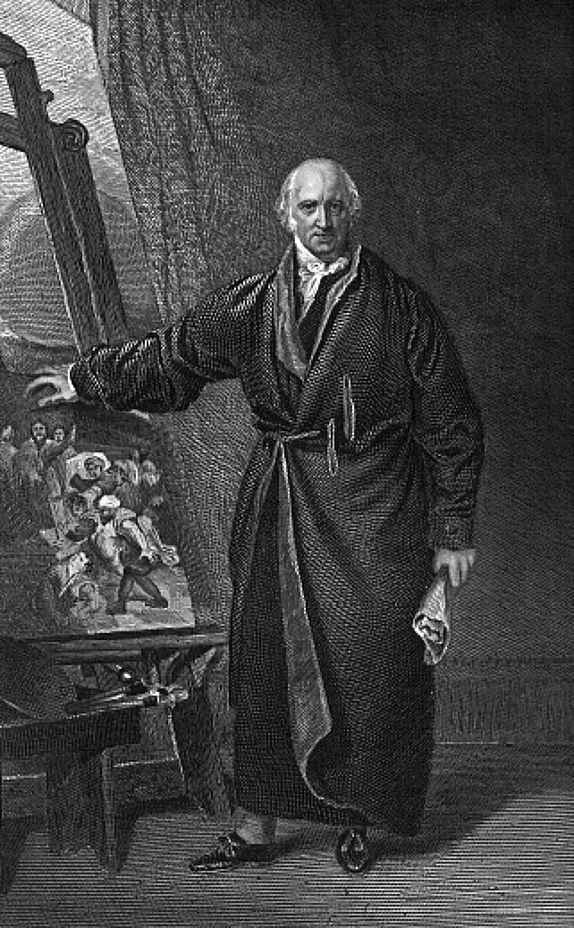 Self-portrait of Benjamin West